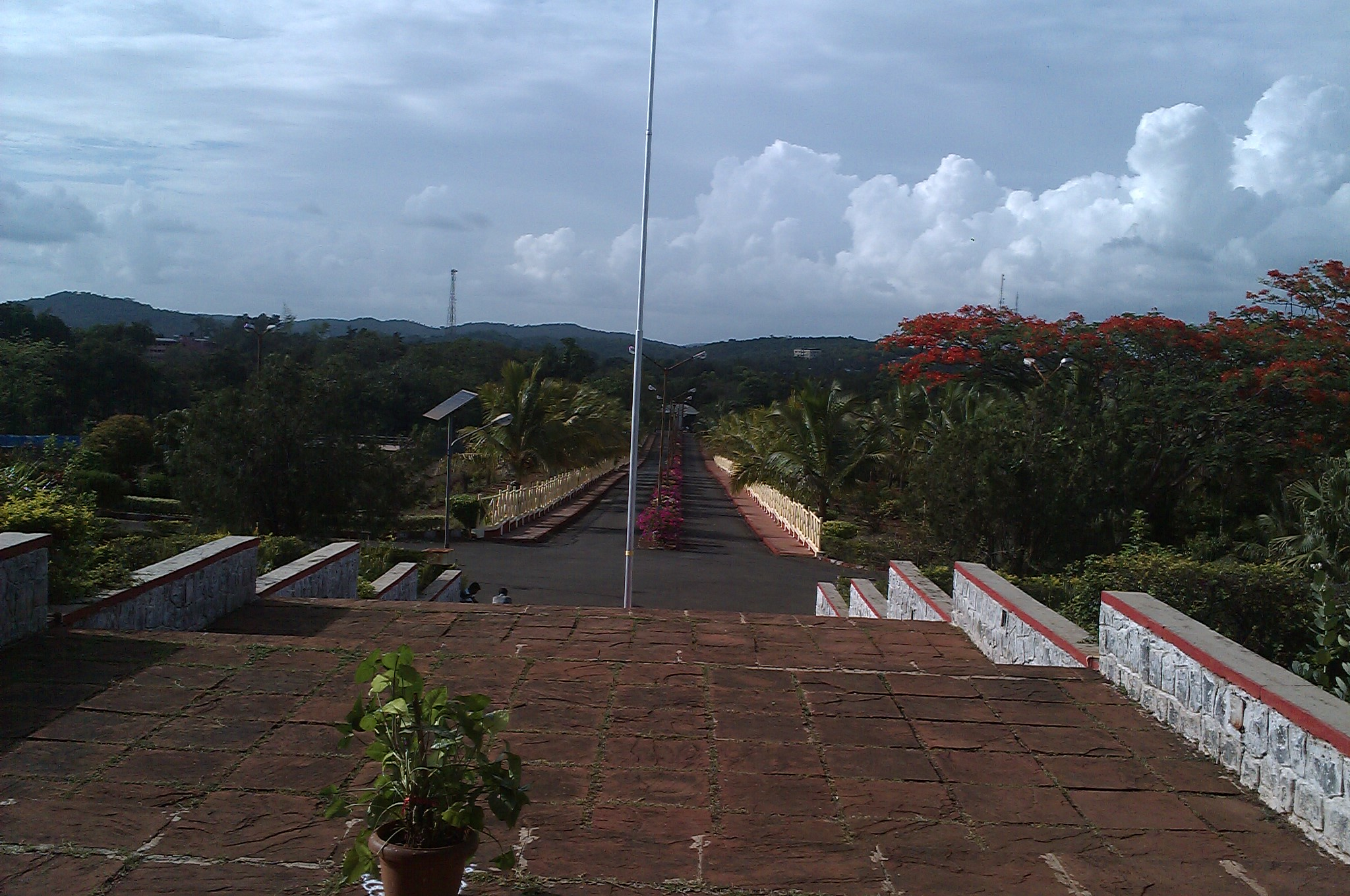 Taken from library steps